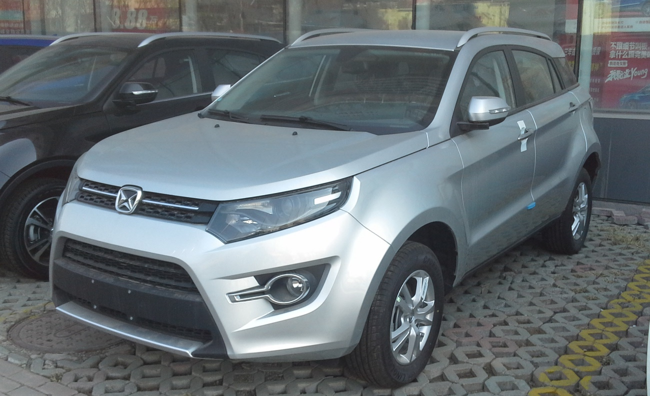 Jiangling Yusheng S330 photographed in Changchun, Jilin province, China.